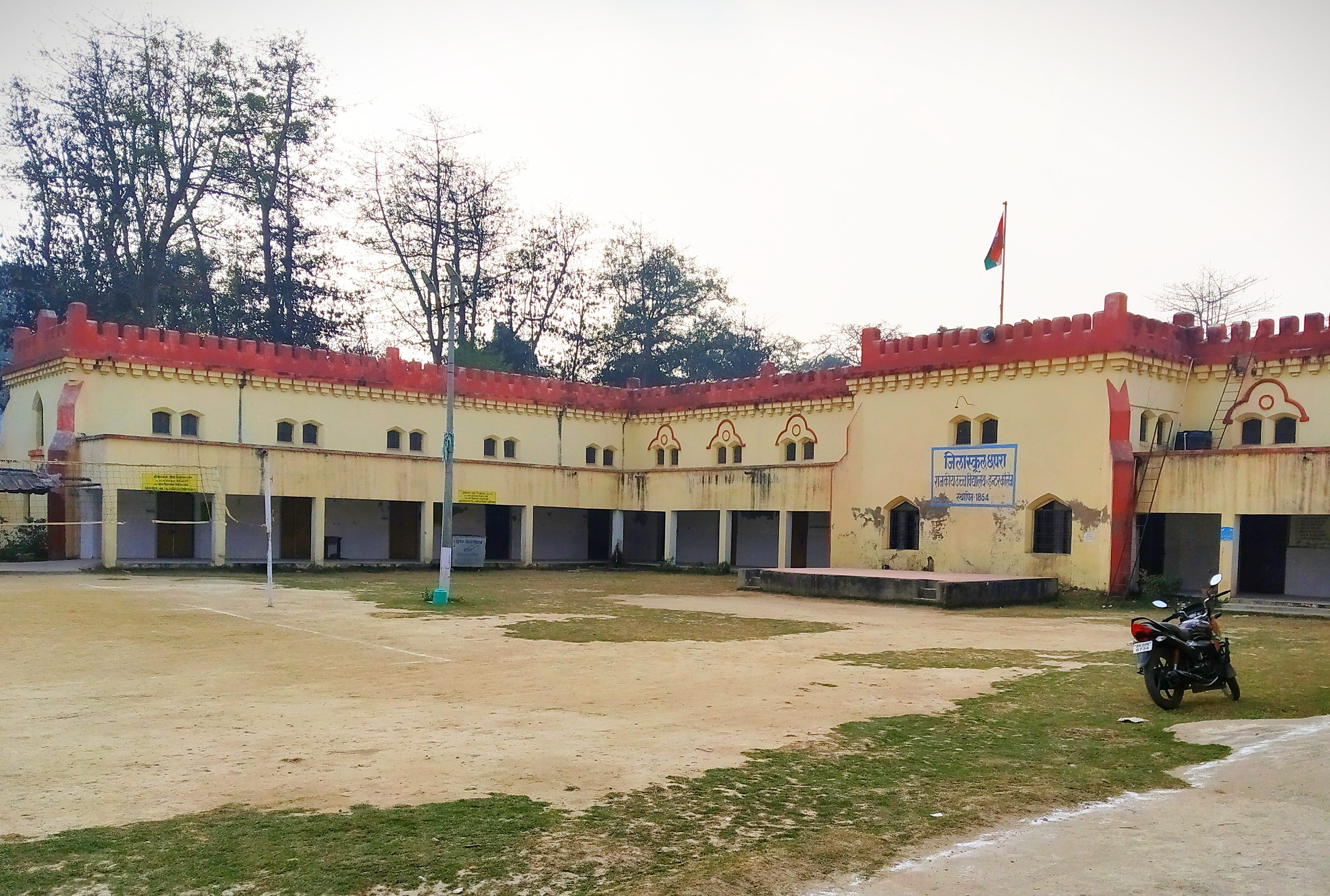 Main building of Zila School, Chapra